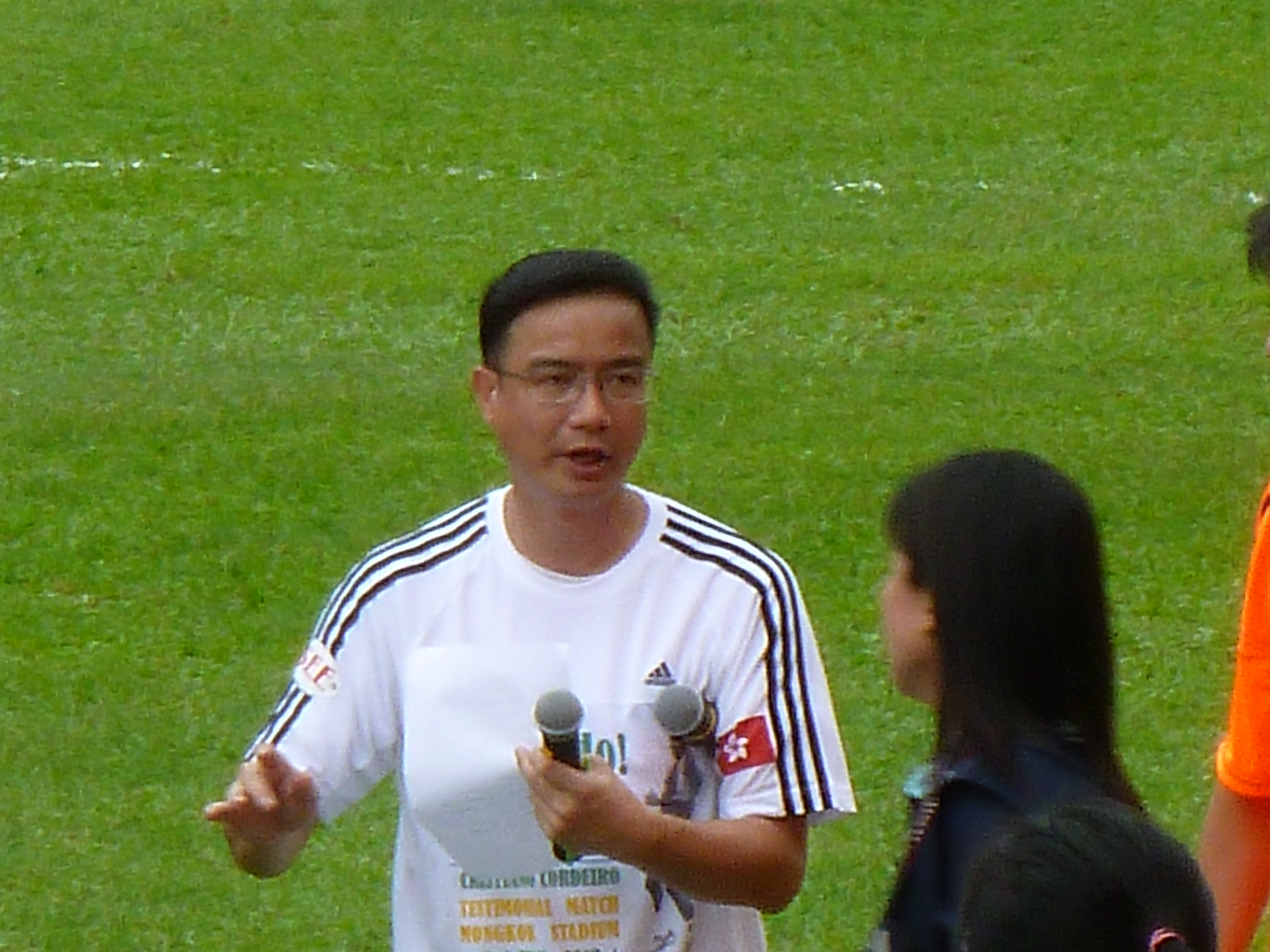 Eric Chung (3 June 2012 testimonial match of Cristiano Cordeiro; Mong Kok Stadium, Hong Kong)